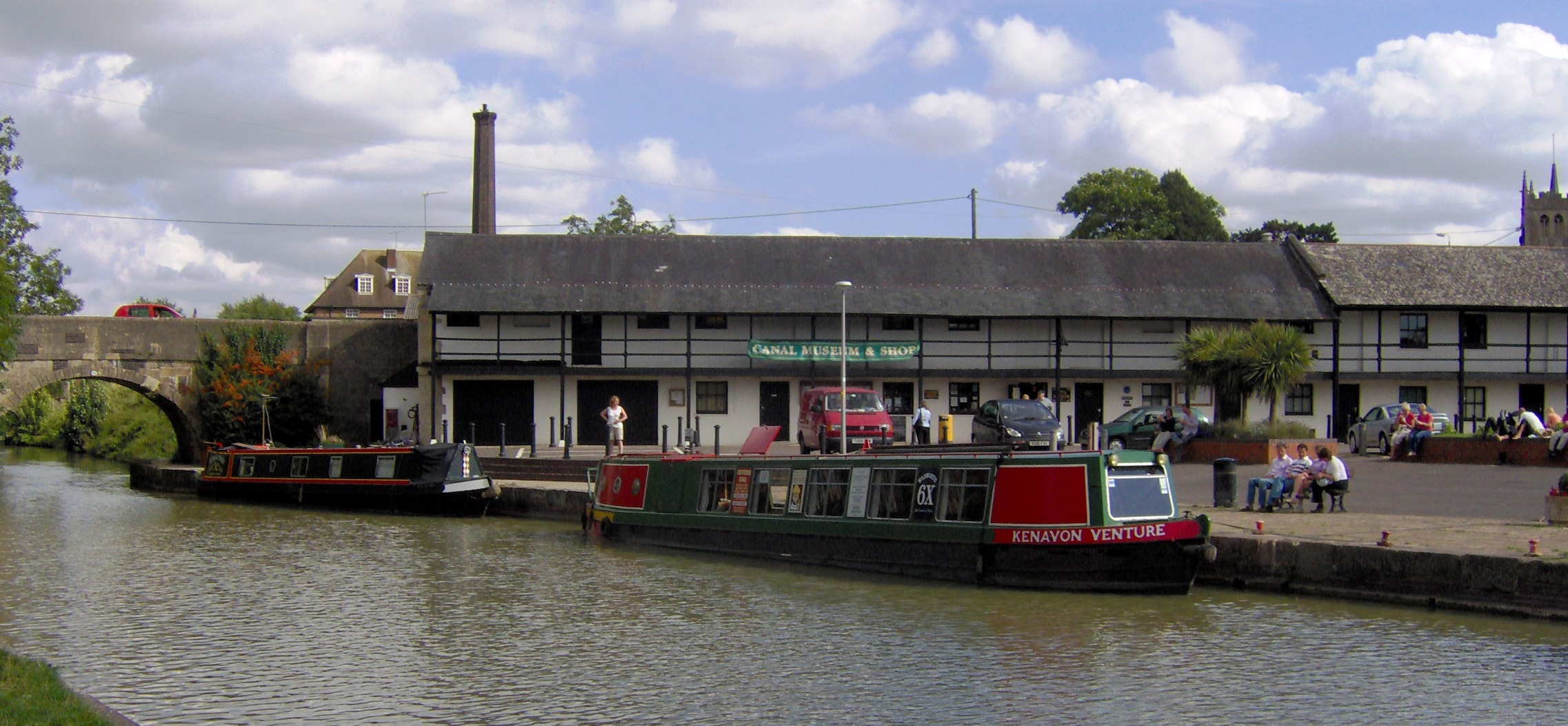 Devizes Wharf showing the Canal Museum. Taken by Rod Ward Aug 2006